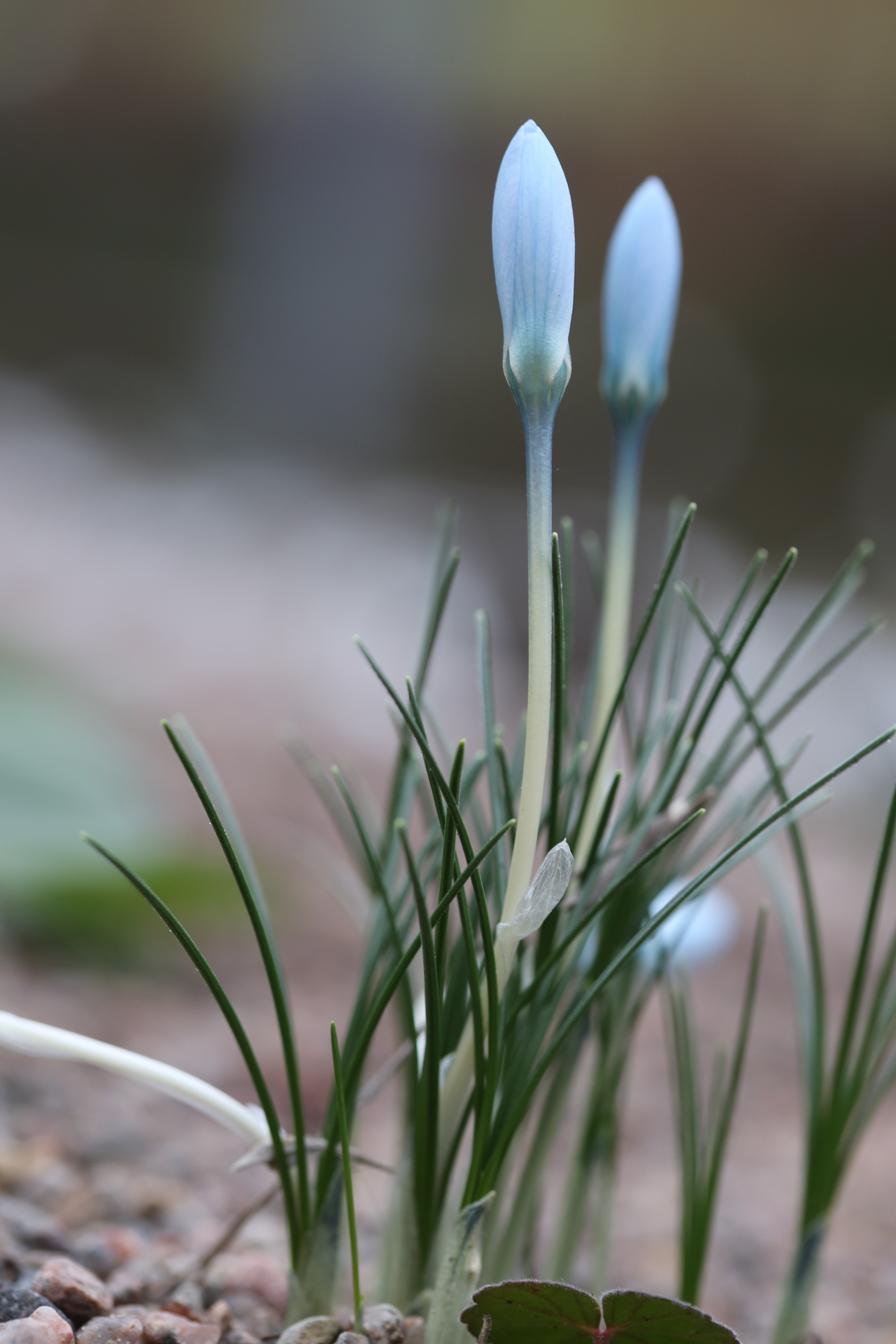 Crocus baytopiorum at Gothenburg botanical garden in 2015. Plant id: 2004-1864 p W; Kletzing